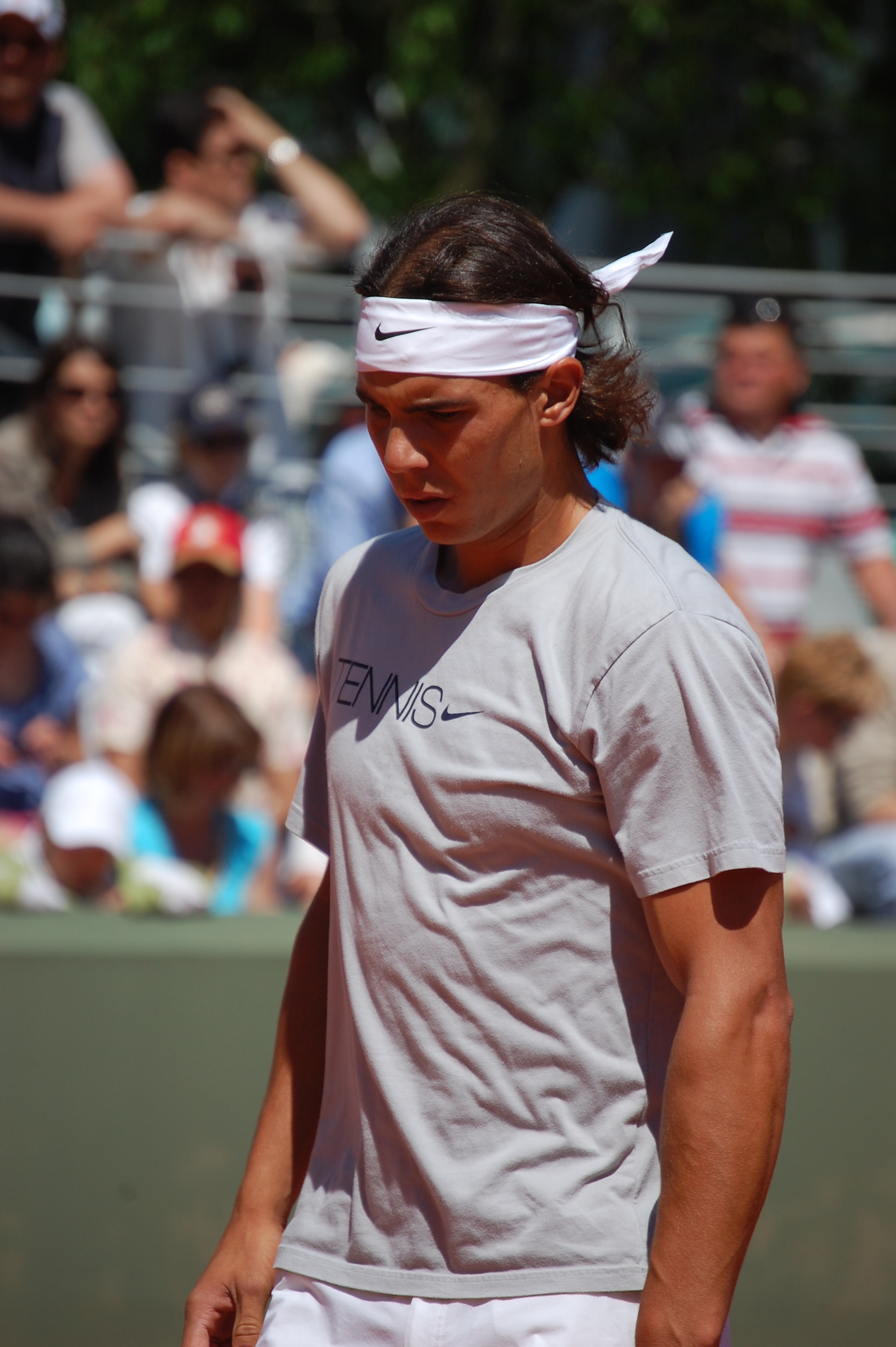 Rafael Nadal, Roland Garros 2009